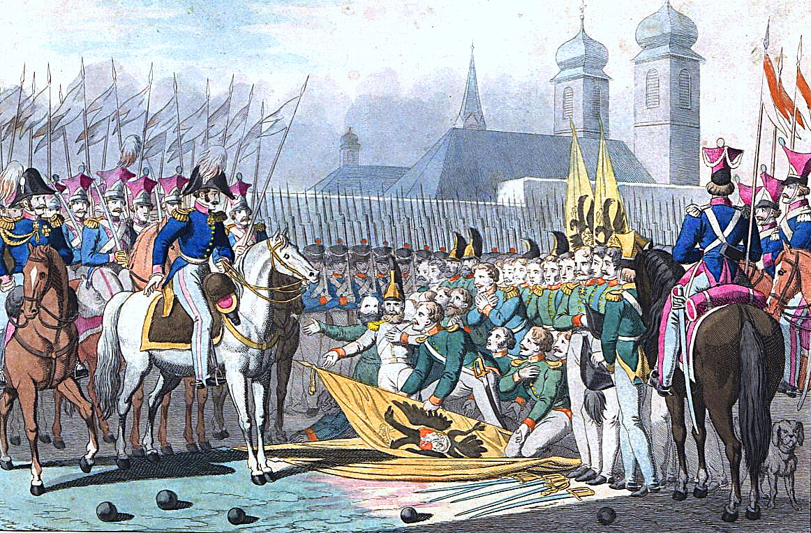 Submission of Russian flags after the second battle of Wawer 1831